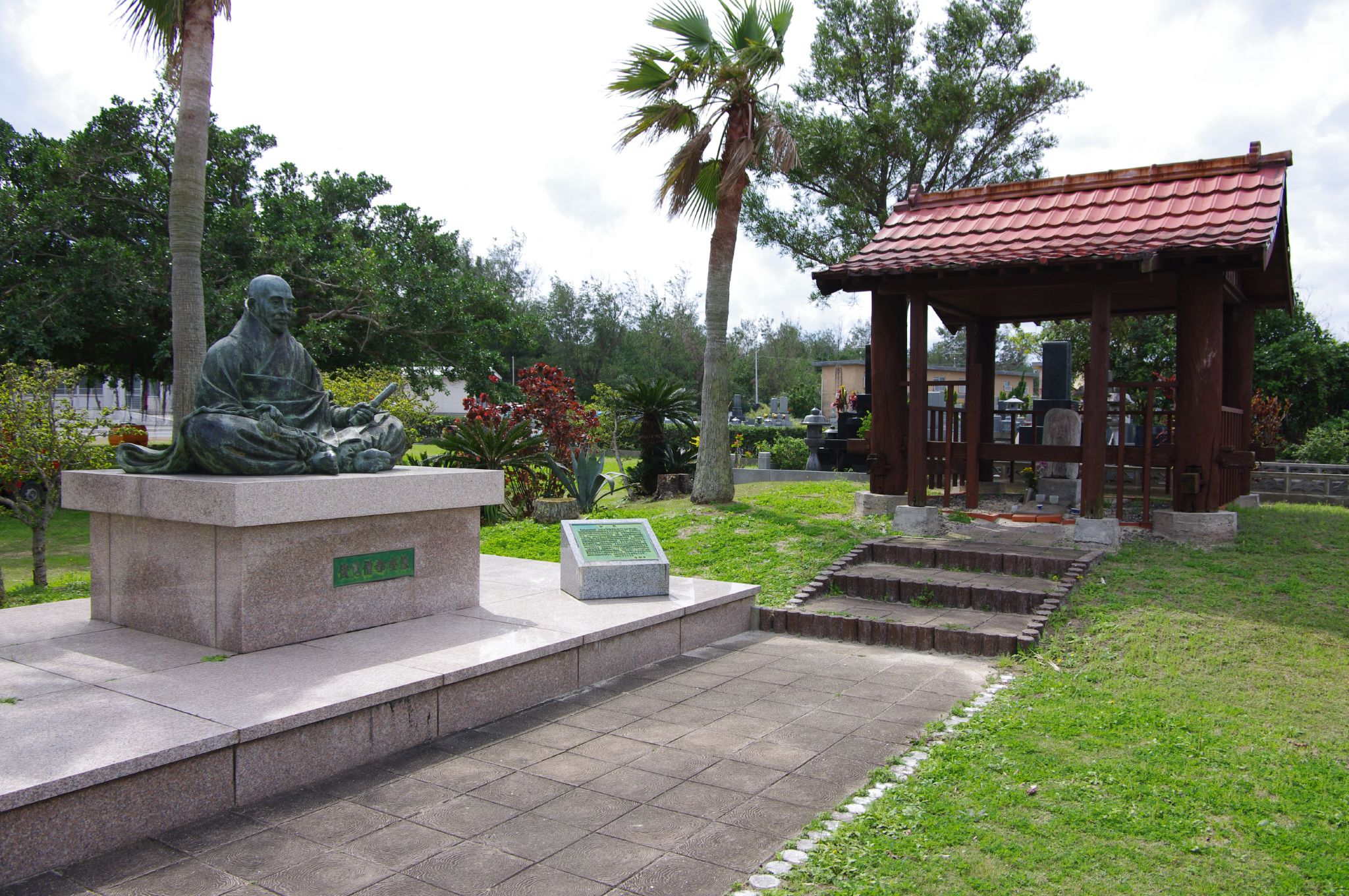 Shunkan's tomb : Kikai-cho, Kagoshima Prefecture, Japan.